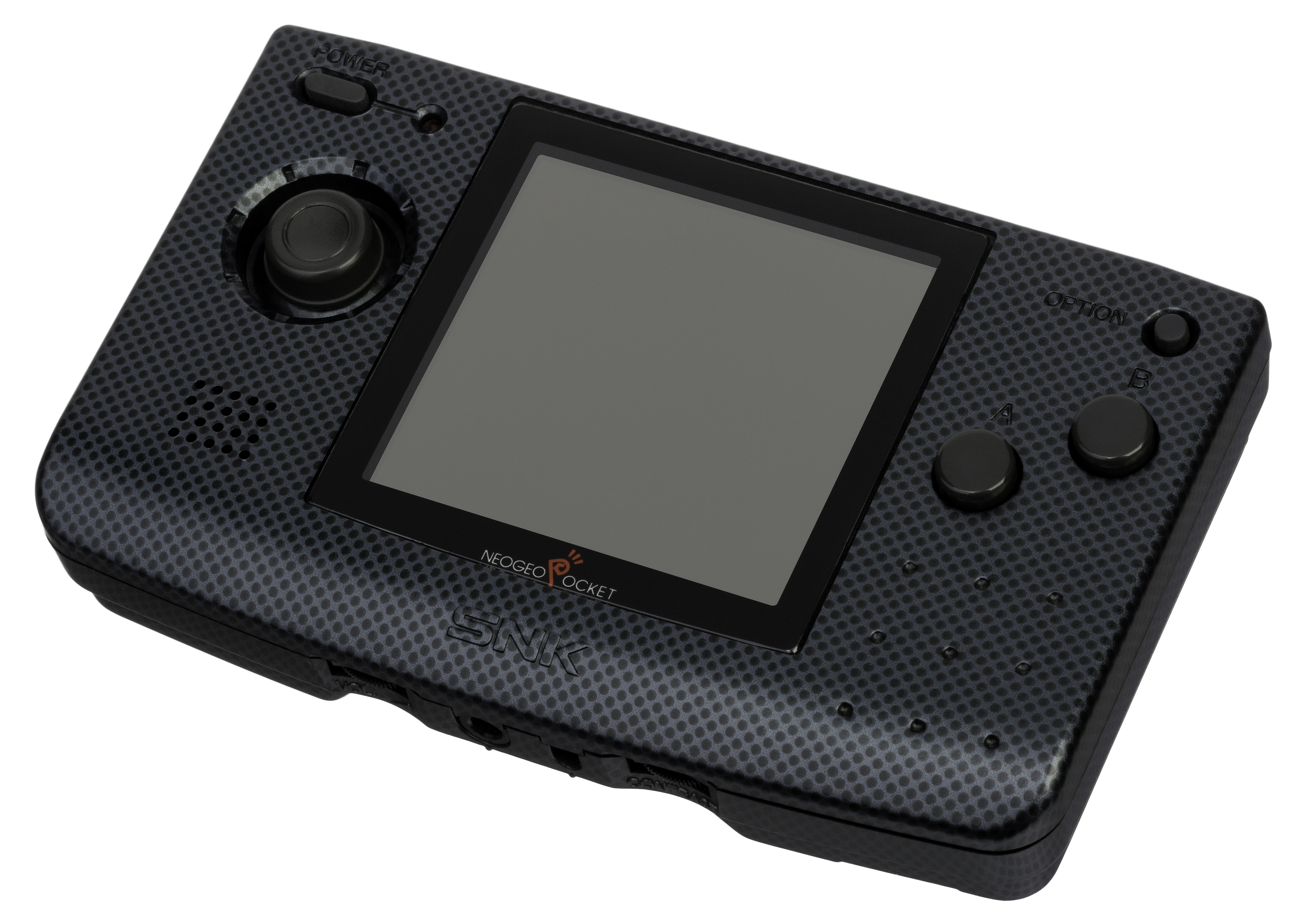 The Neo Geo Pocket gaming console in anthracite. Released by SNK in 1998, the Neo Geo Pocket was a Japan-only, monochrome handheld. The Neo Geo Pocket was quickly discontinued and followed up by the Neo Geo Pocket Color months later.